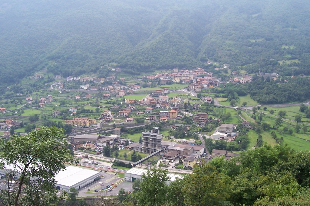 Panorama of Sellero, Val Camonica